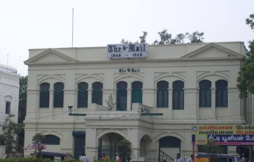 Office of the now-defunct English-language newspaper The Mail